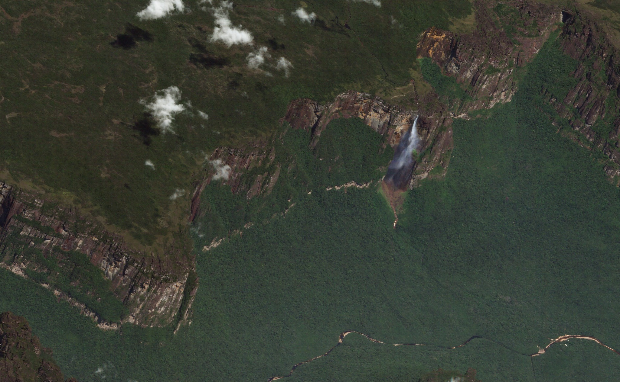 SkySat satellite image of Salto Angel, Venezuela